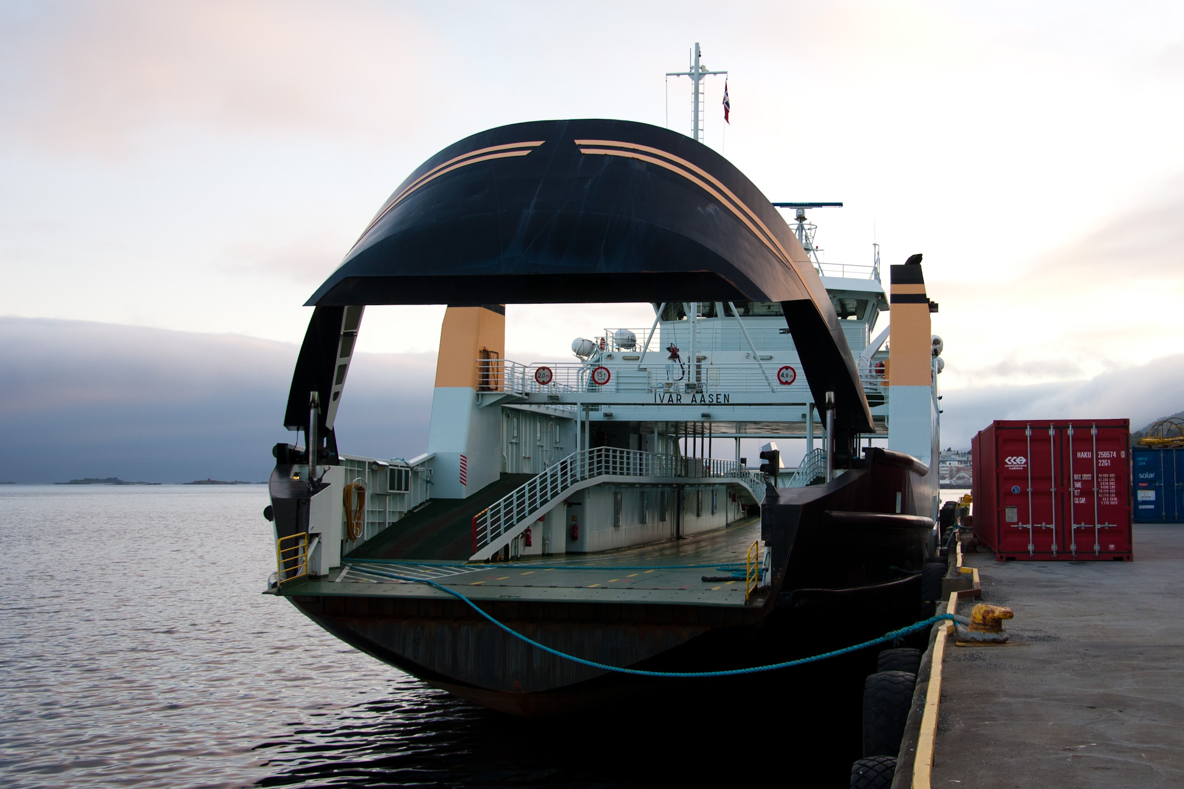 MF Ivar Aasen, a ferry between Aukra and Holingsholmen in Møre og Romsdal county, Norway. This picture is from Grandfjæra in Molde.